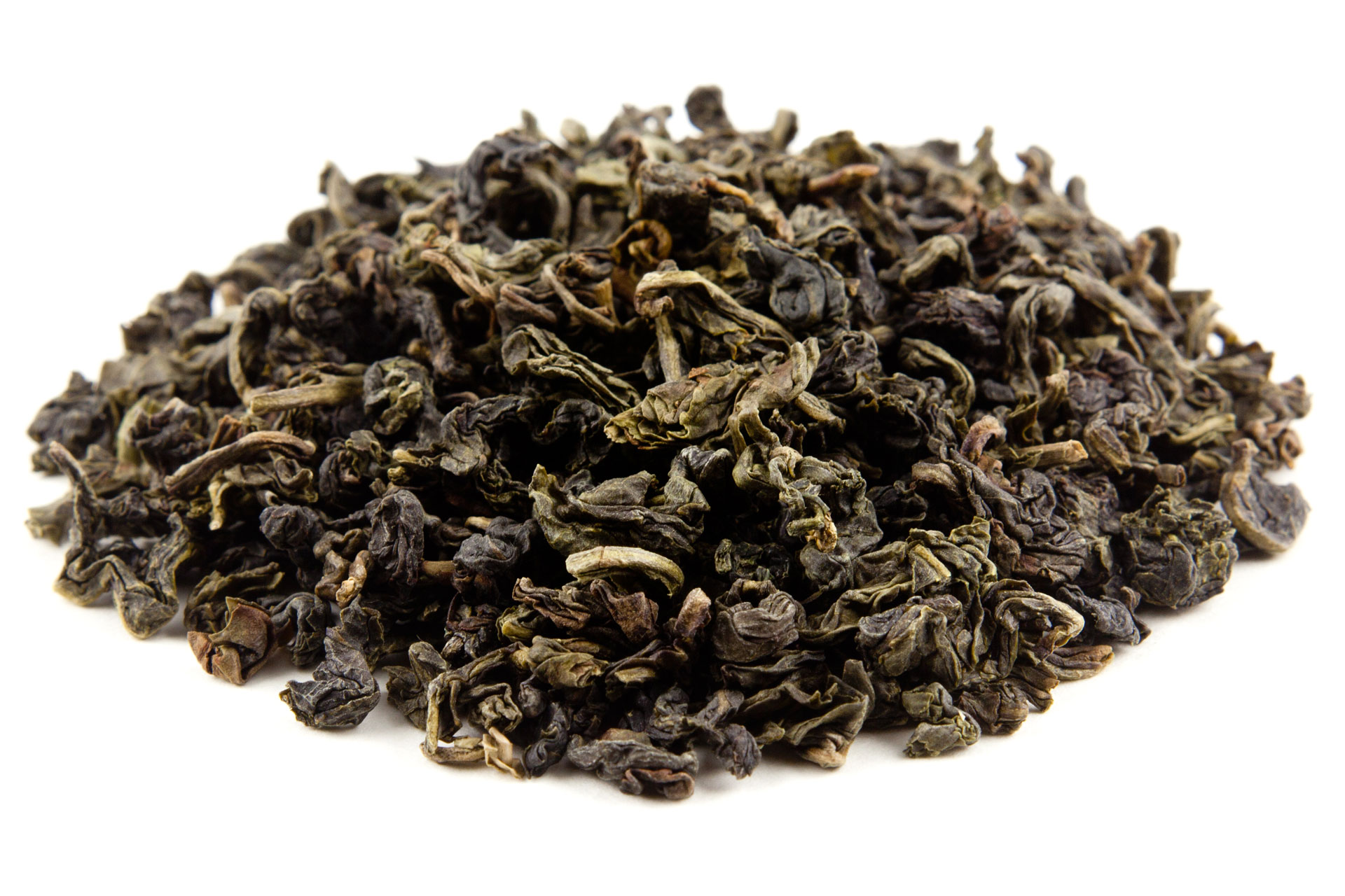 Chinese Oolong Tea Dung Ti Premium